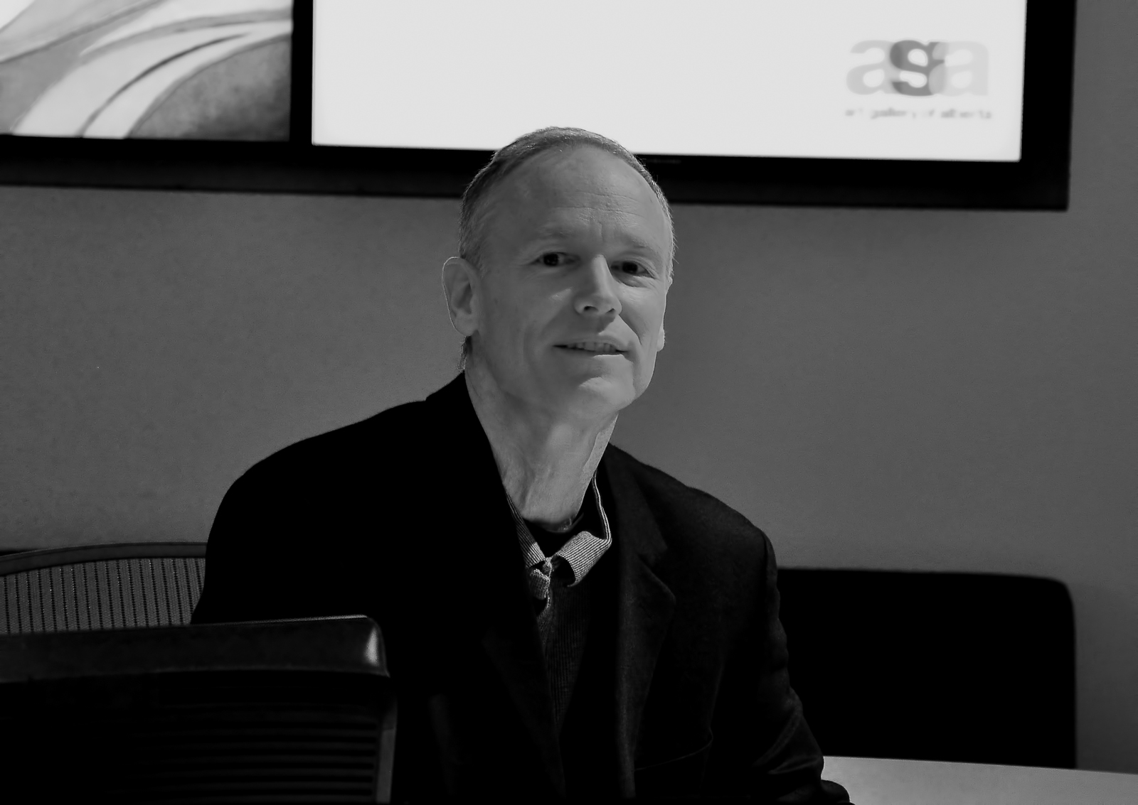 Architect Randall Stout